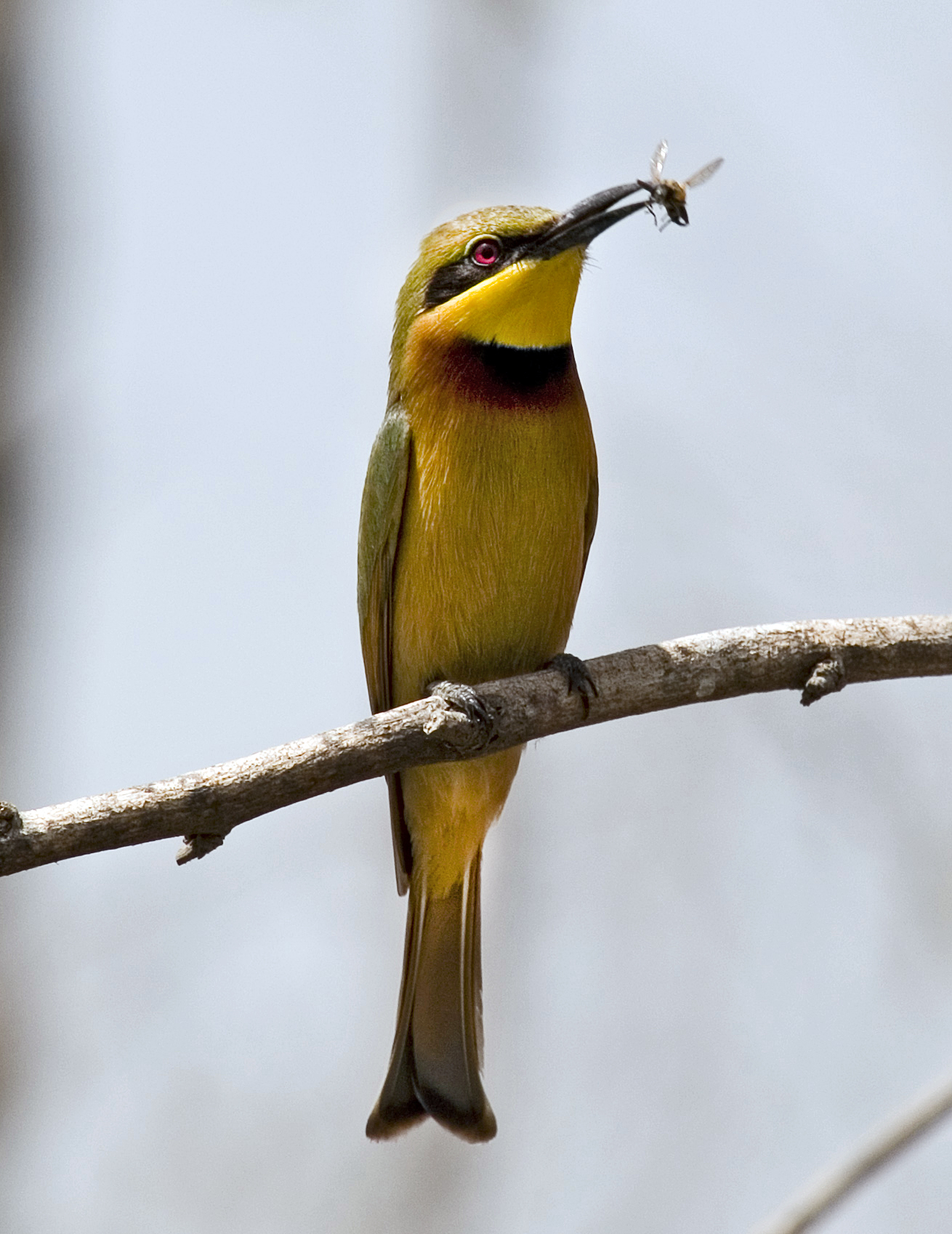 Hann Park. Dakar, Senegal. The yellow throat, black gorget and cinnamon upper breast indicate an adult. Let me also promote SueRob's outstanding pic of the same bird.